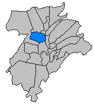 Map of Luxembourg City, Luxembourg, with the boundaries of the city's twenty-four quarters demarcated and the quarter of Limpertsberg highlighted in blue.